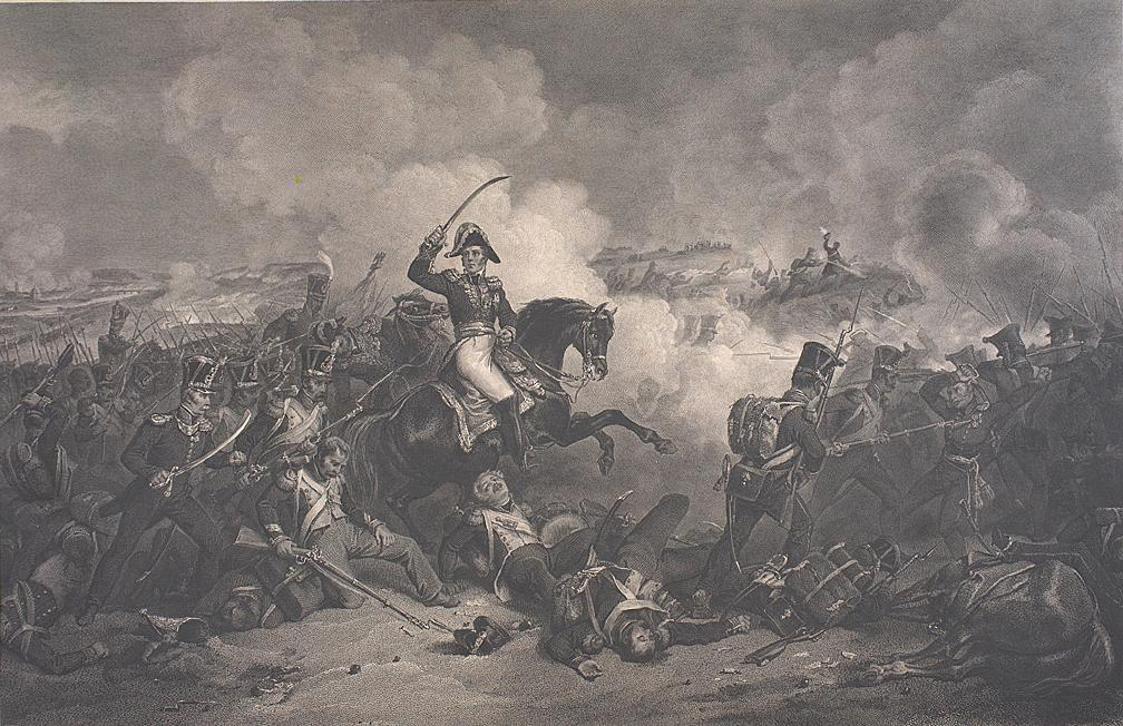 The battle of the Moskowa. Ney on horseback with sword drawn, leads the charge. Engraving by original work of Langlois, Jean-Charles.